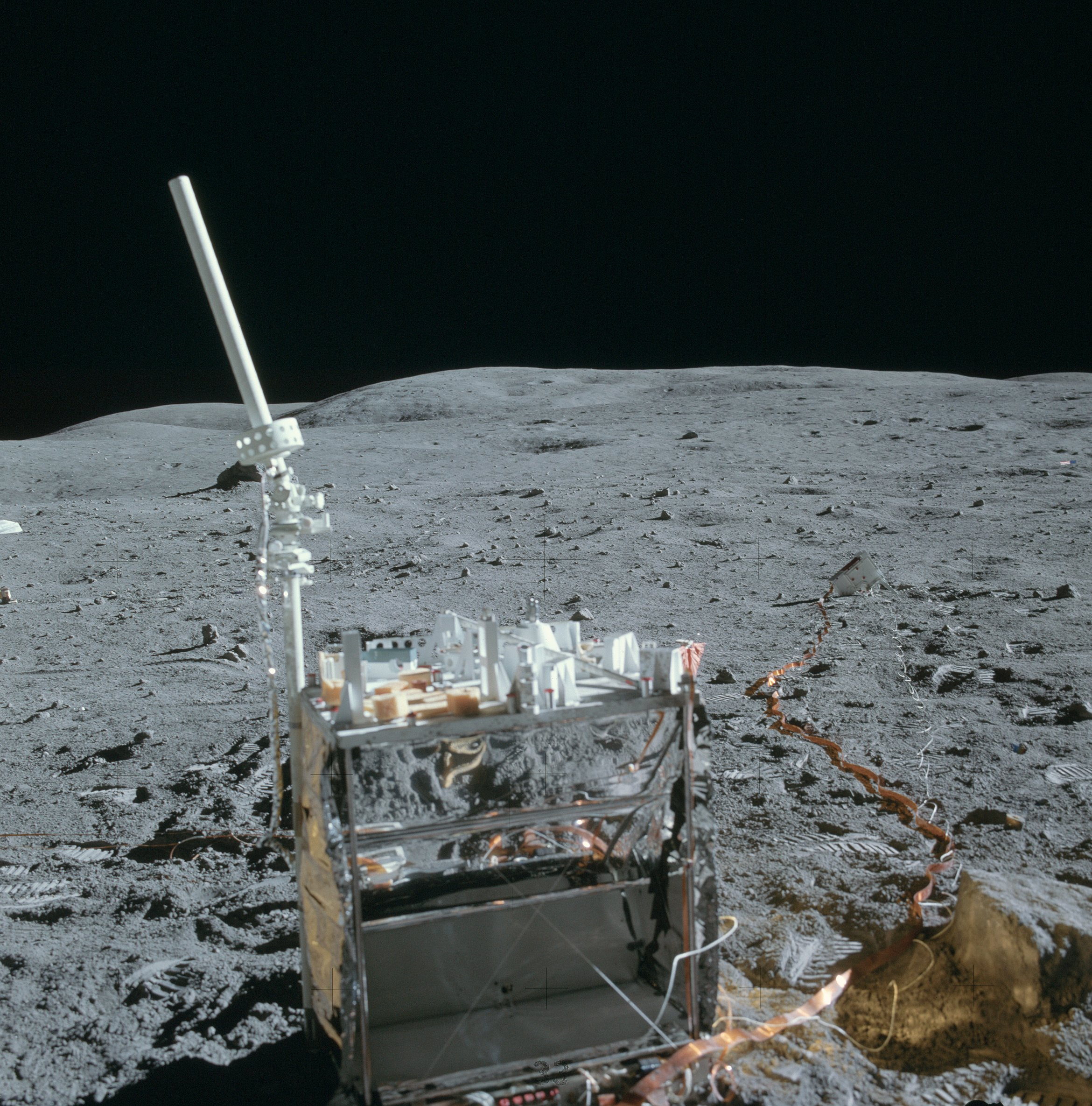 Central Station of Apollo 16's ALSEP.